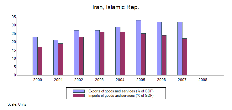 Balance of trade, Iran (2000-2007). Historical data: World Bank.